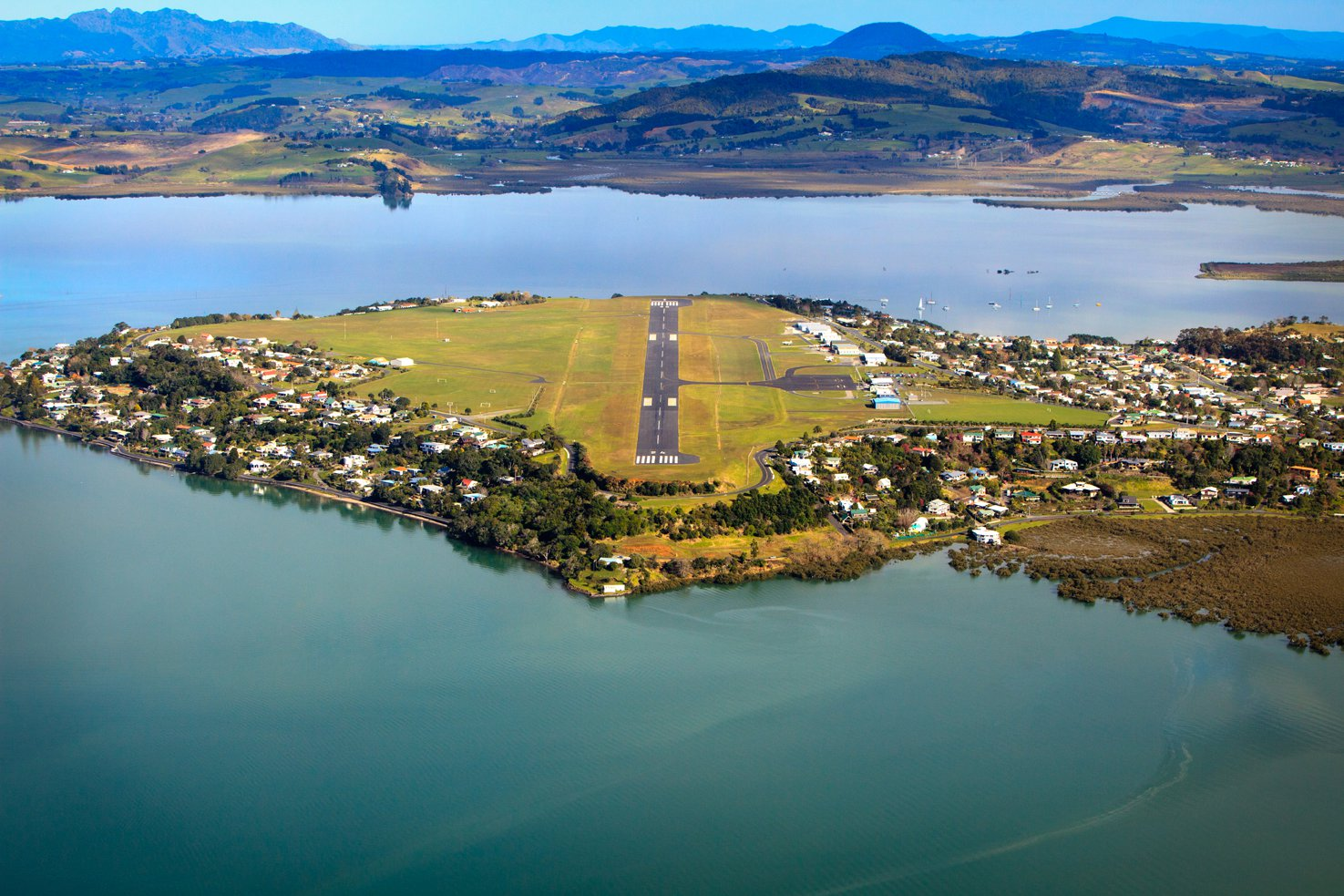 Whangarei airport. Credit Quantam Aviation